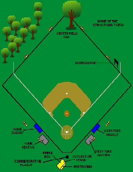 a ruff diagram of the layout of the ball field in Stringtown OK.